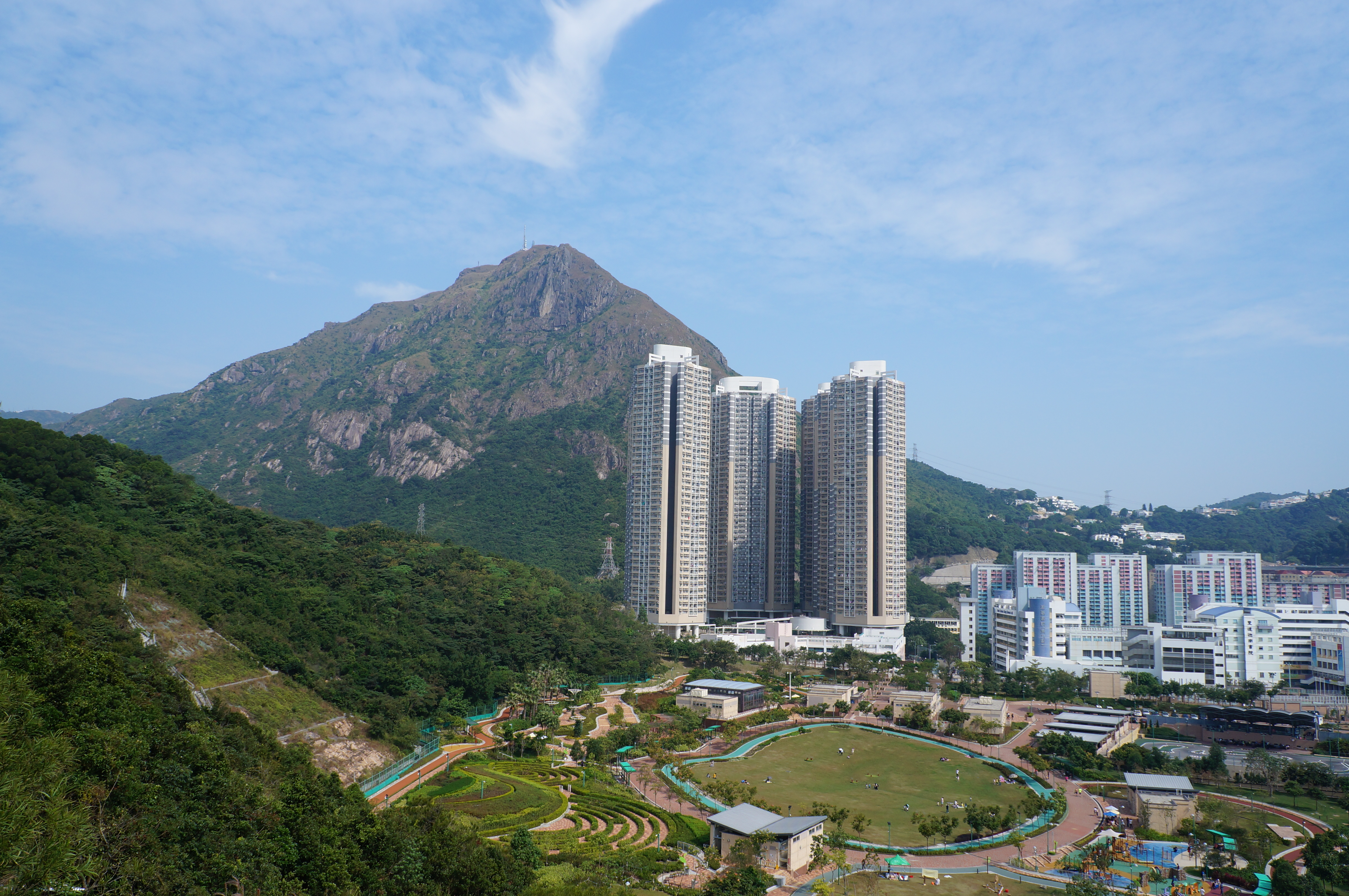 Kowloon Peak, Shun Lee Disciplined Services Quarters and Jordan Valley Park